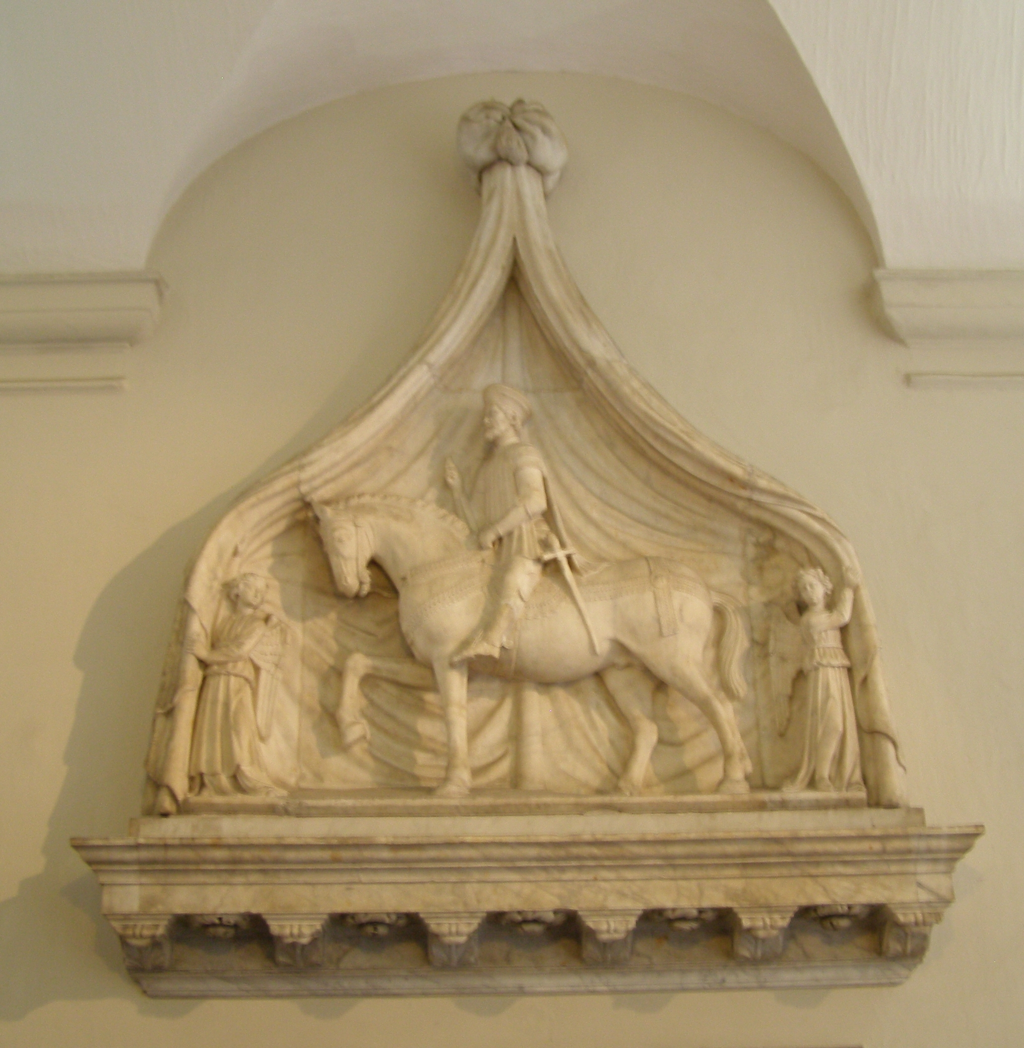 Genoa - Palazzo Spinola in Pellicceria